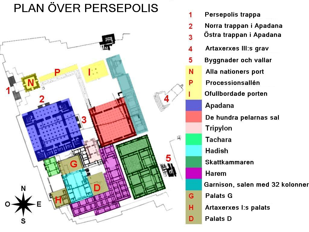 Swedish translation of Image:Persepolis complex map french.jpg